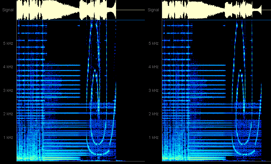 Image made by me, showing the spiral of Aphex Twin's single Window Licker.